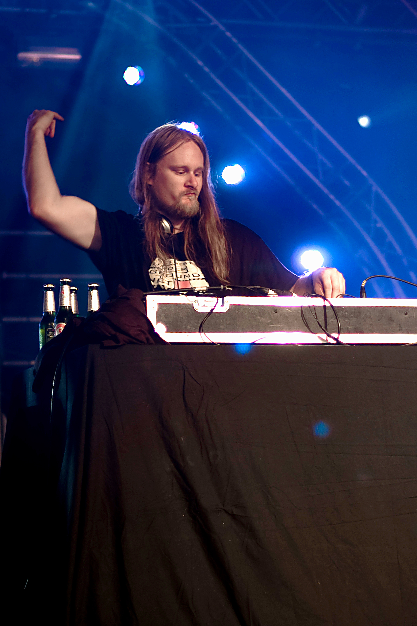 Canadian electronic musician Aaron Funk alias Venetian Snares performing at the Ilosaarirock 2008 festival in Joensuu, Finland.